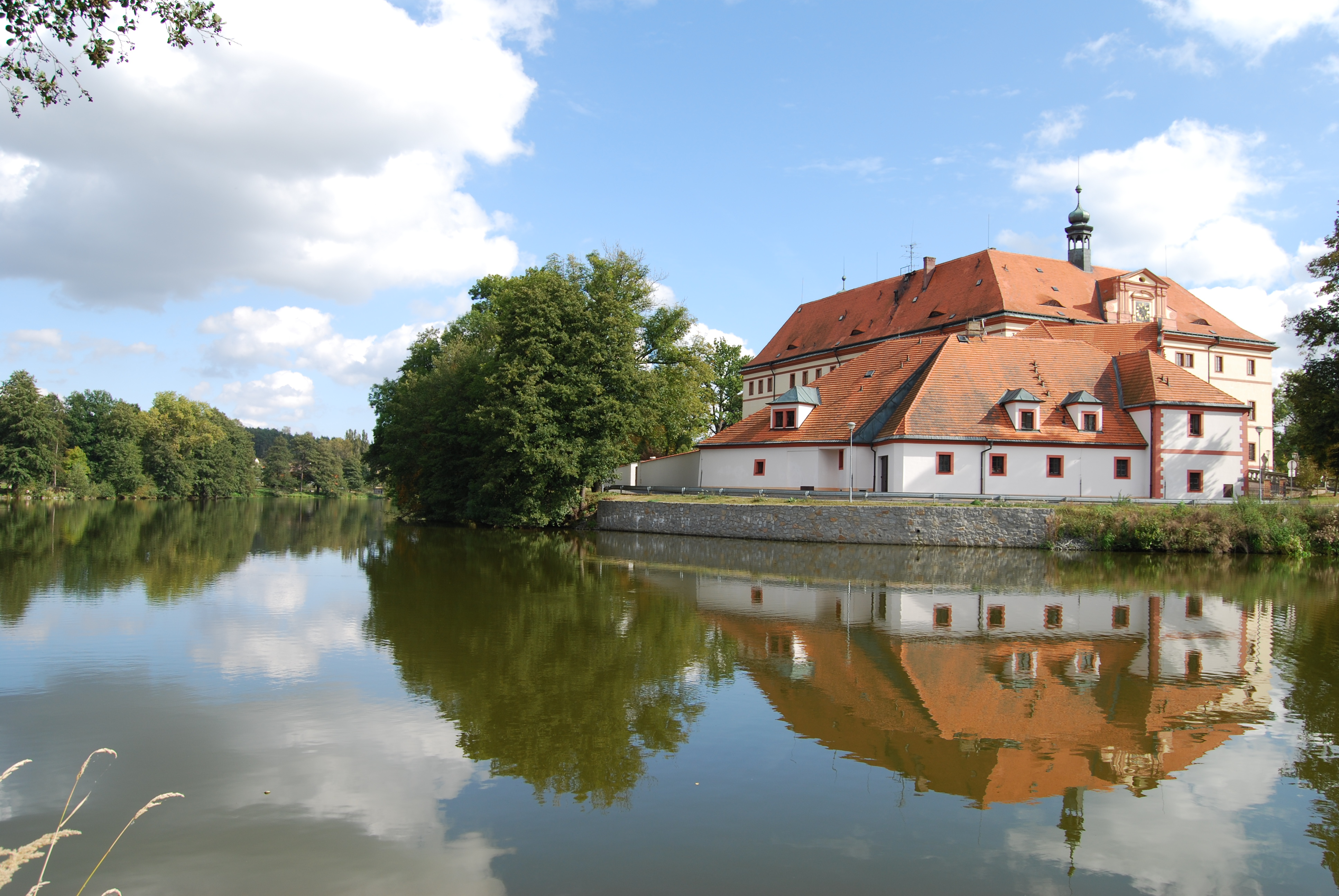 "Stará tvrz" in Lnáře town, Strakonice District, Czech Republic. In front is "Zámecký" pond.